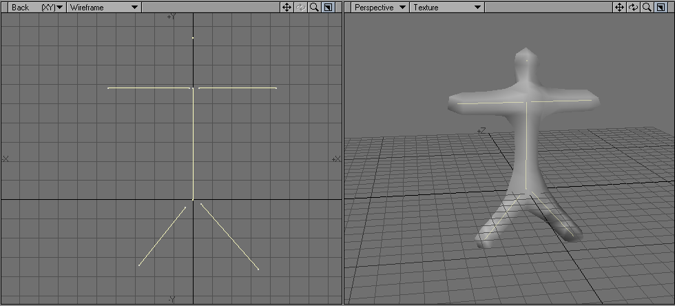 Metaedges - simple 3d object built from metaedges in Lightwave3D.